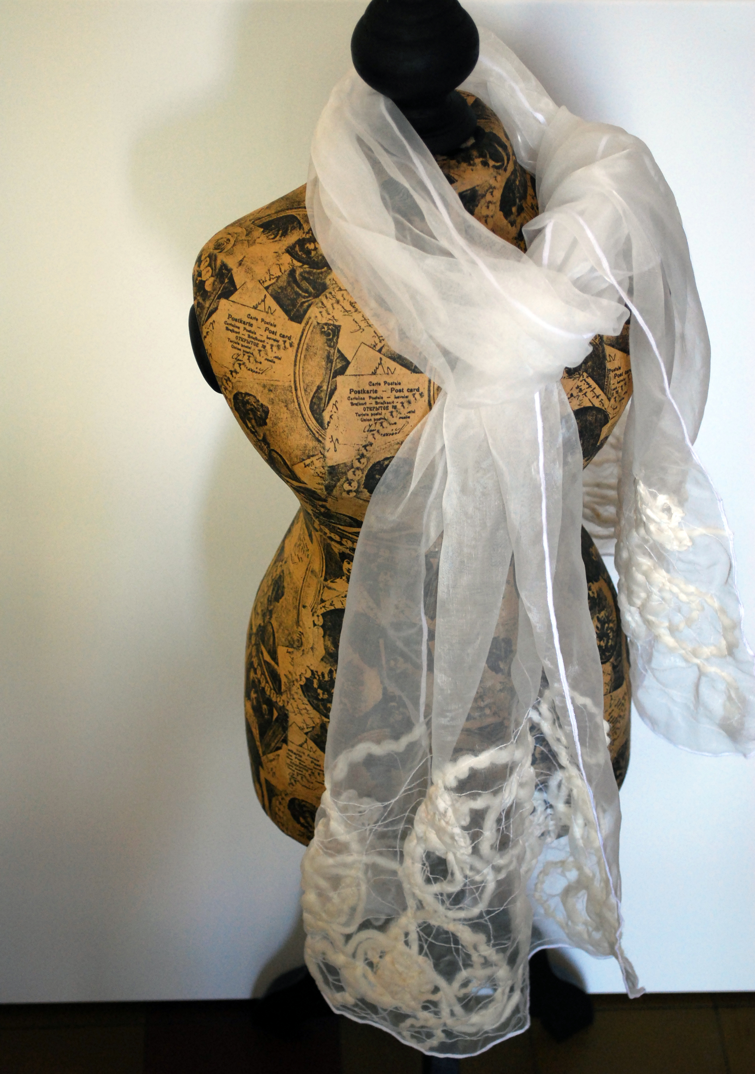 A photograph of a foulard scarf